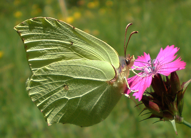 Adult in Madriu Valley, Andorra.